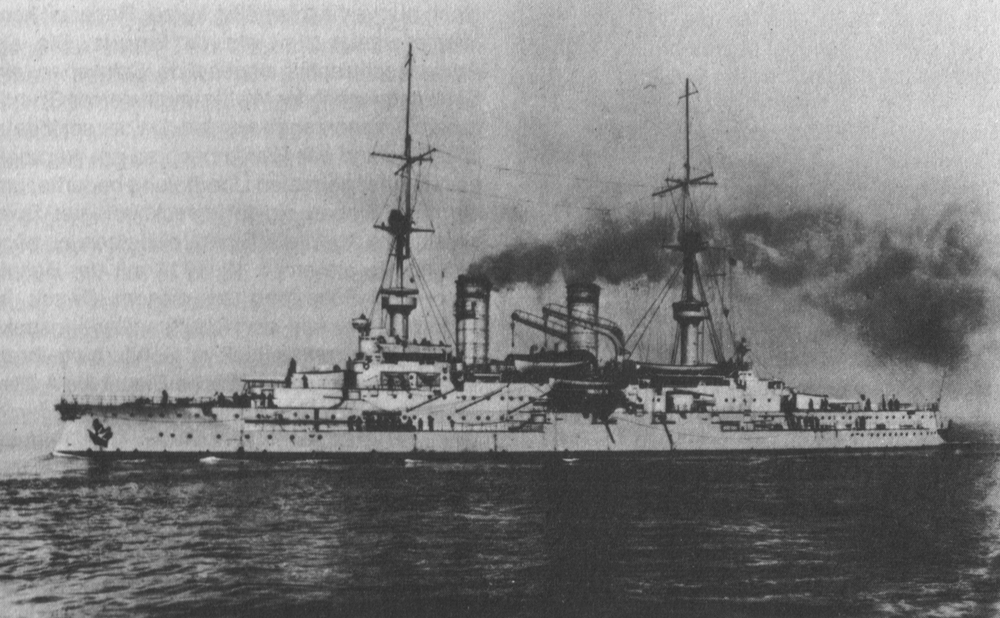 SMS Wettin (launched 1901) in 1910.